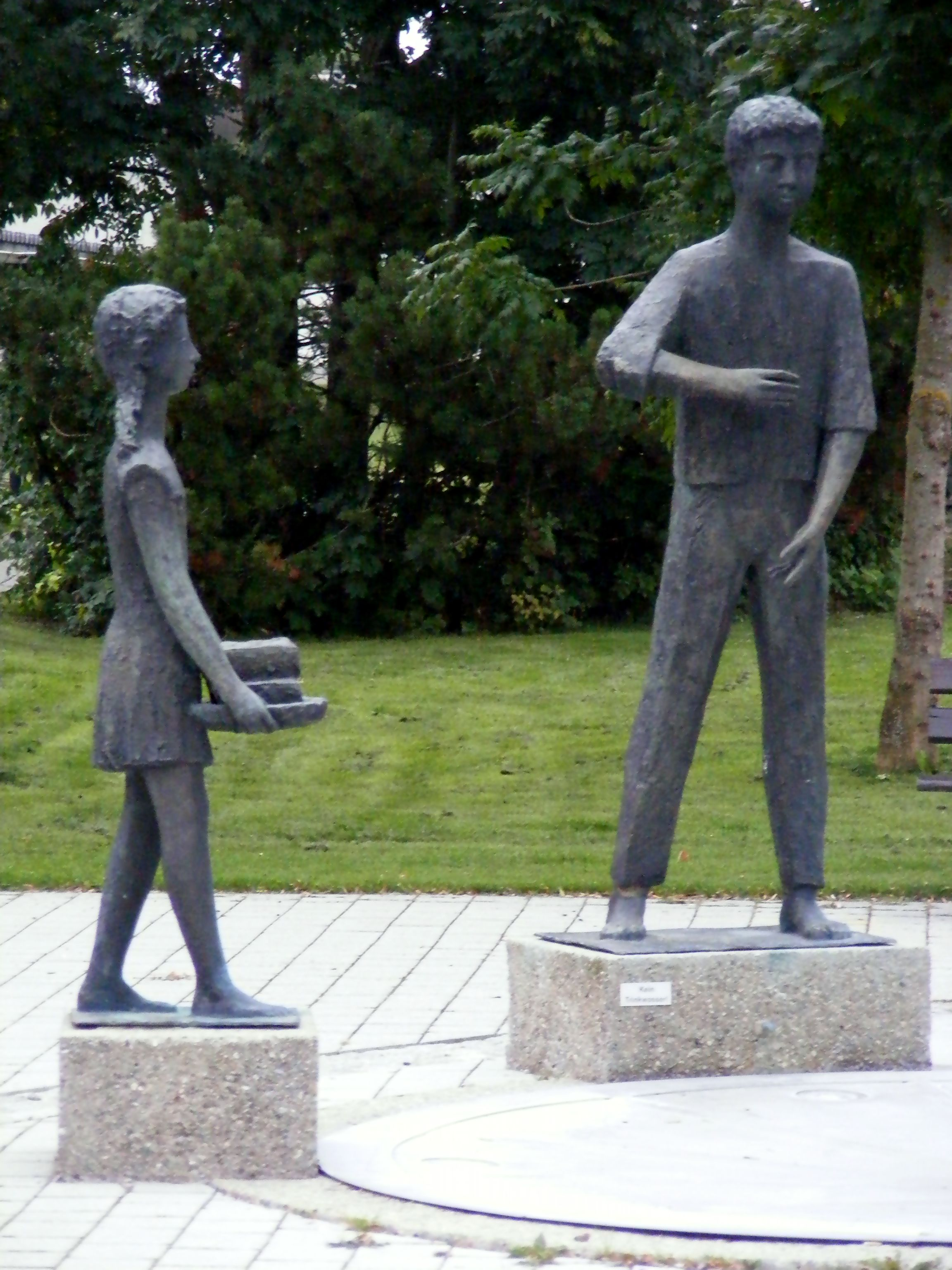 Sculptures of a glass blower and a peat carrying girl, Bürmoos, Austria